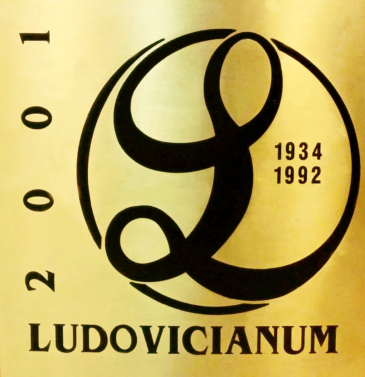 The symbol of the College: a "L" in a ring with the three years which recollect the "three births".